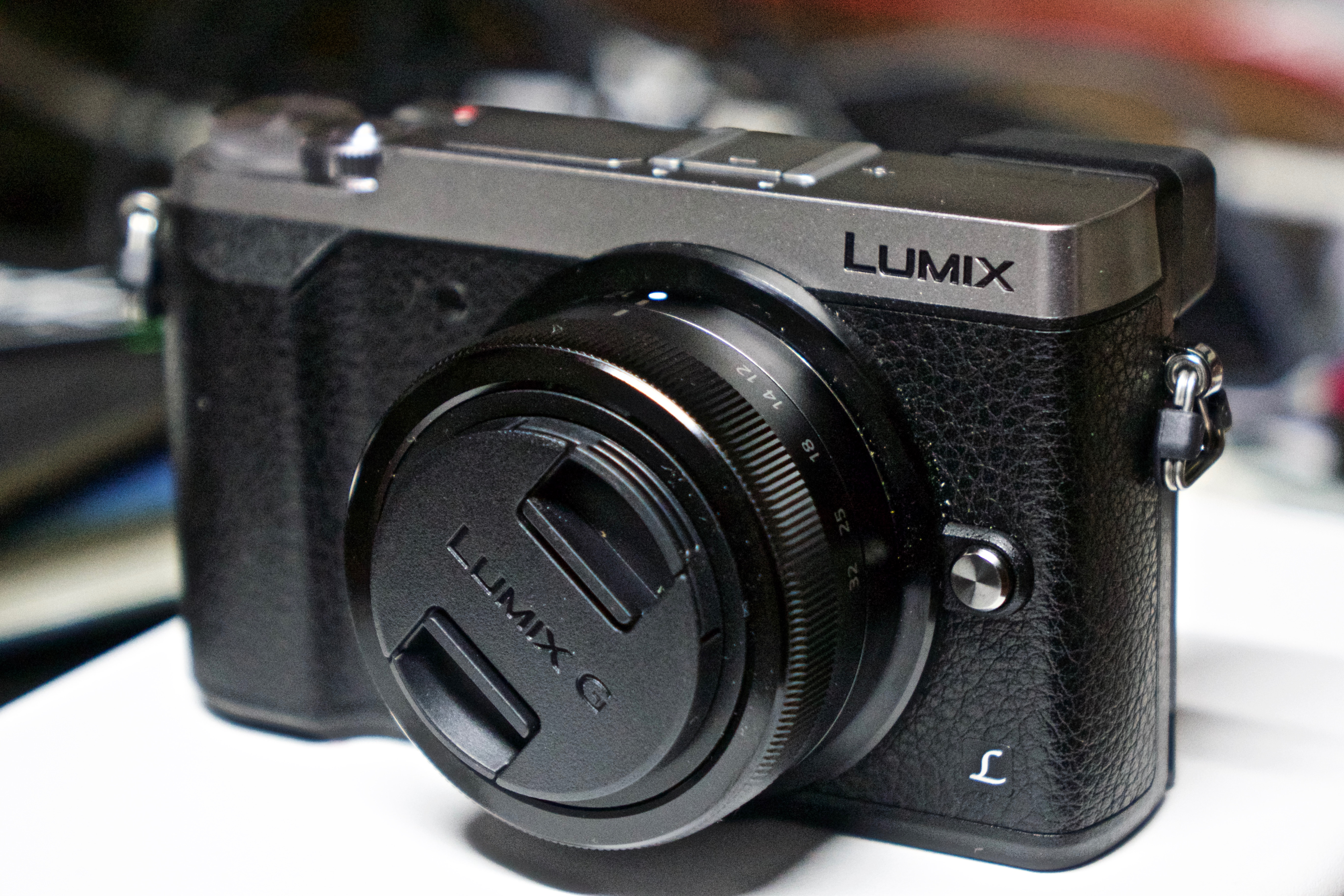 Panasonic Lumix DMC-GX85 (US name) Panasonic Lumix DMC-GX80 (European name) Panasonic Lumix DMC-GX7 Mark II (Japanese name)